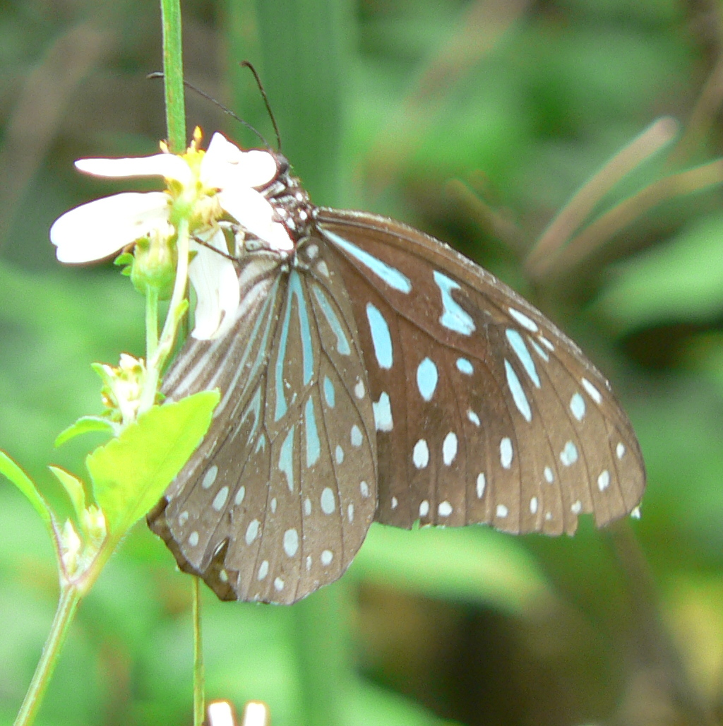 Tirumala limniace from Taroko gorge in Taiwan